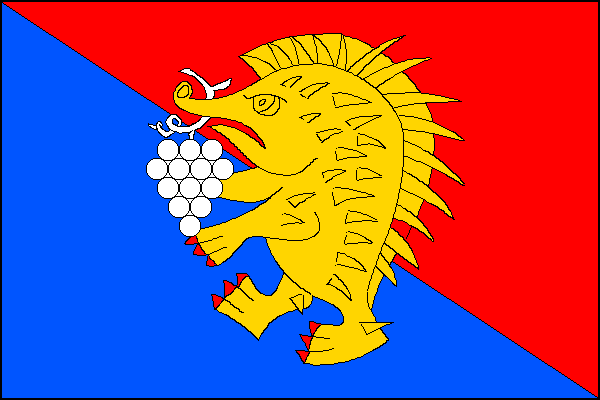 Municipal flag of Ježov village, Hodonín District, Czech Republic.